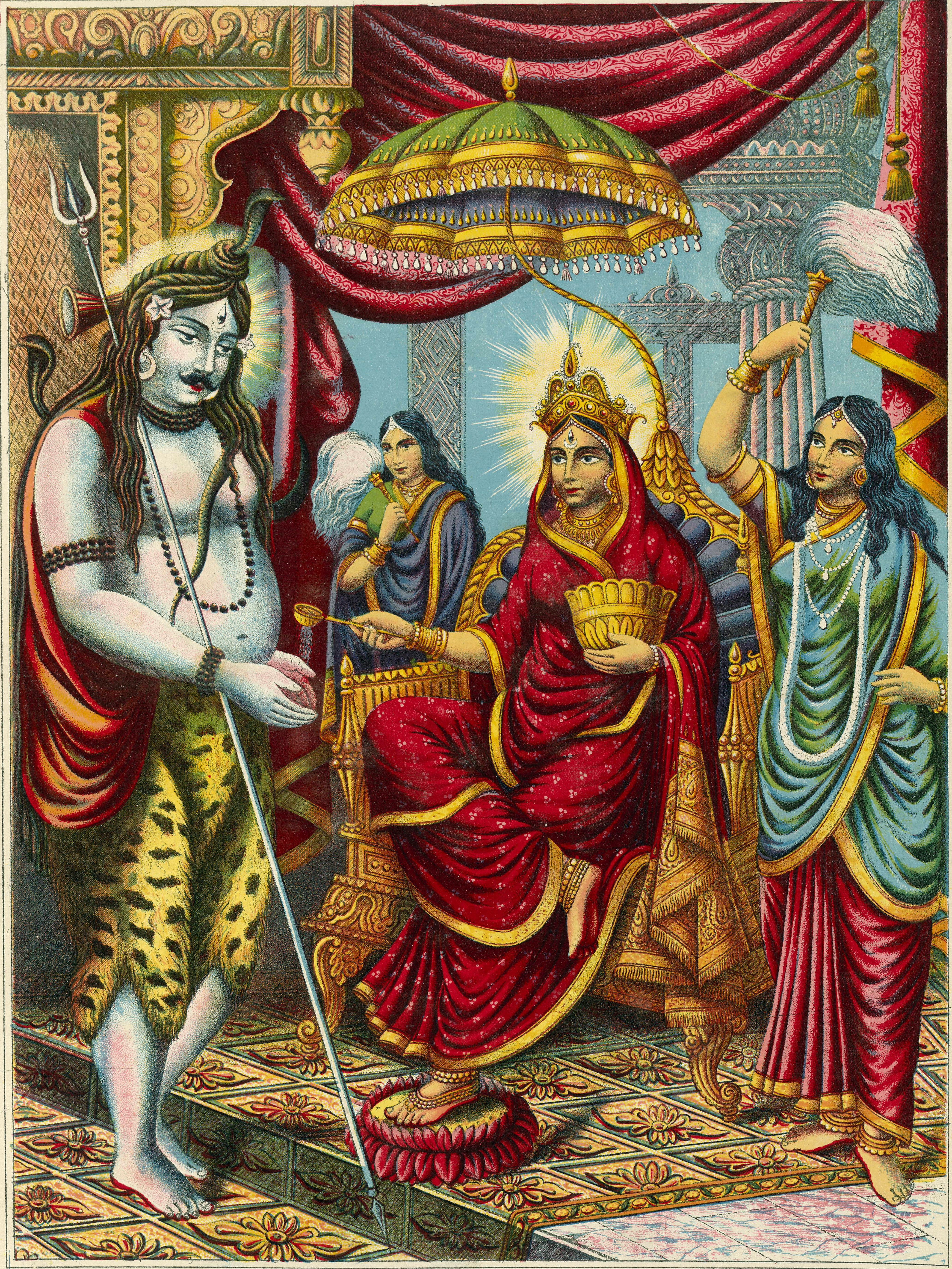 "Album of popular prints mounted on cloth pages. Colour lithograph, lettered, inscribed and numbered 46. Shiva stands in front of Parvati in an ornately decorated pillared hall; she is enthroned and has female attendants holding flywhisks on either side. Parvati ladles rice into Shiva's outstretched hands in honour of the Annapurna festival."